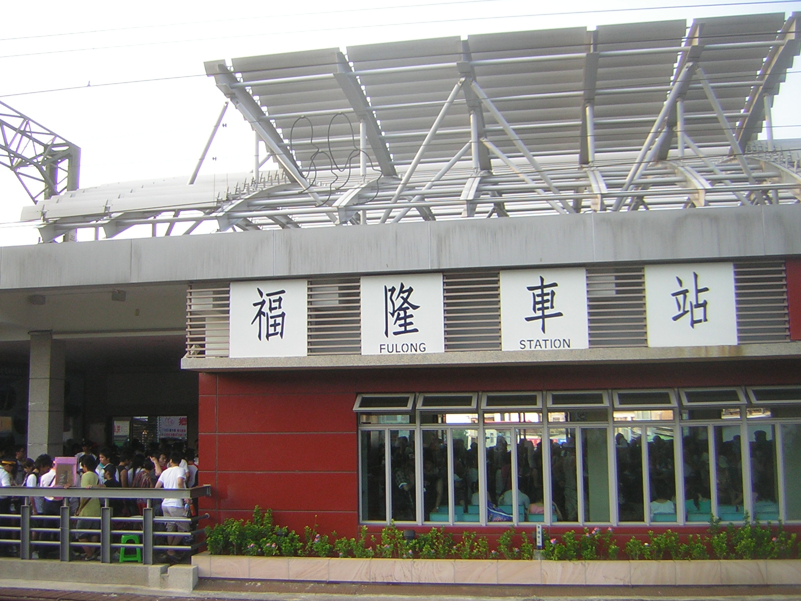 Fulong Station of Taiwan Railway Administration at Gongliao Township, Taipei County, Taiwan